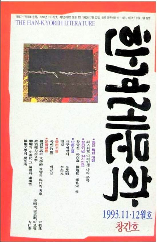 The Han Kyorerh Literature of First issue(Literary magazine) of Korea